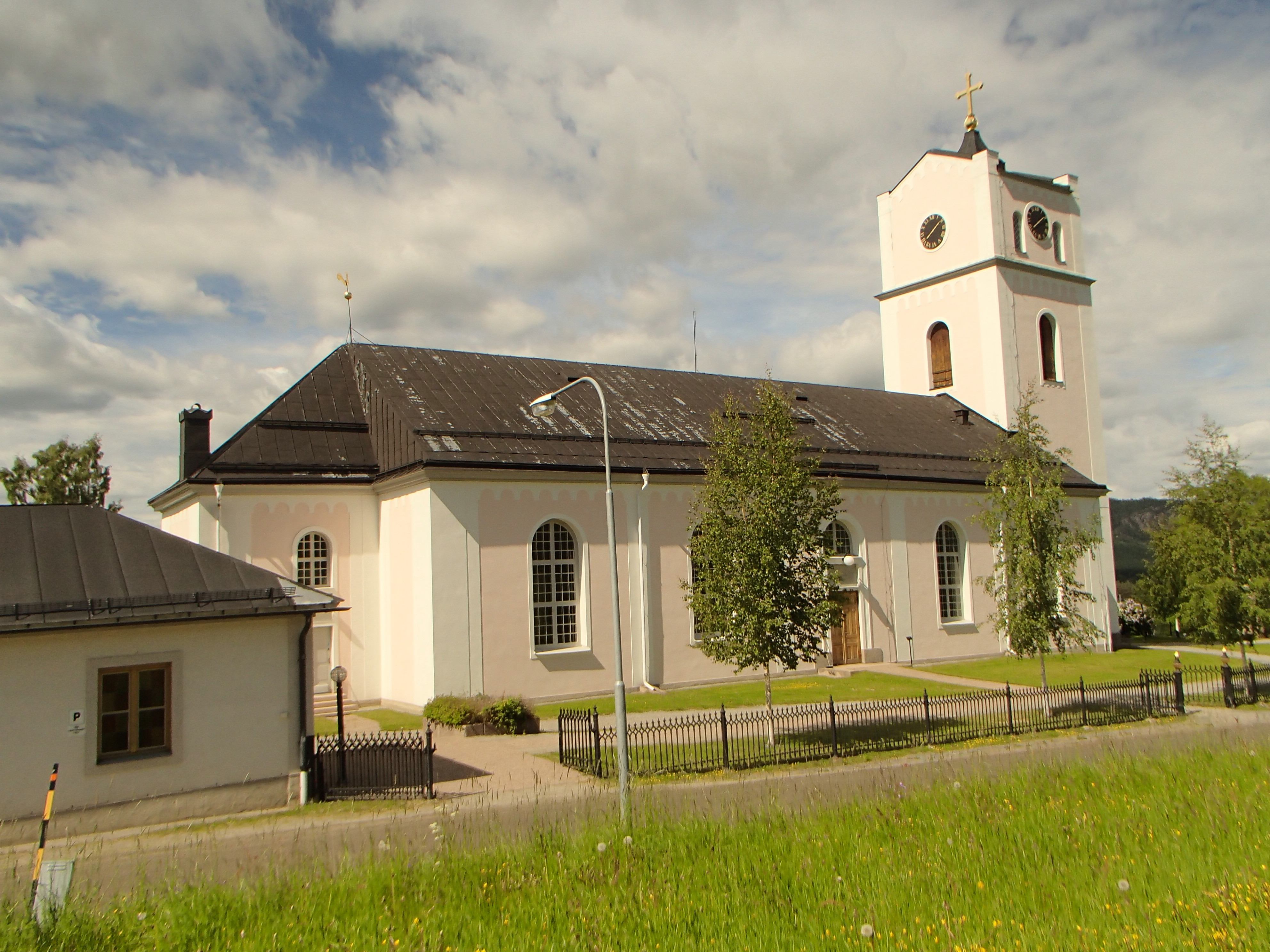 The church building of "Ragunda nya kyrka" in Pålgård, Ragunda Municipality